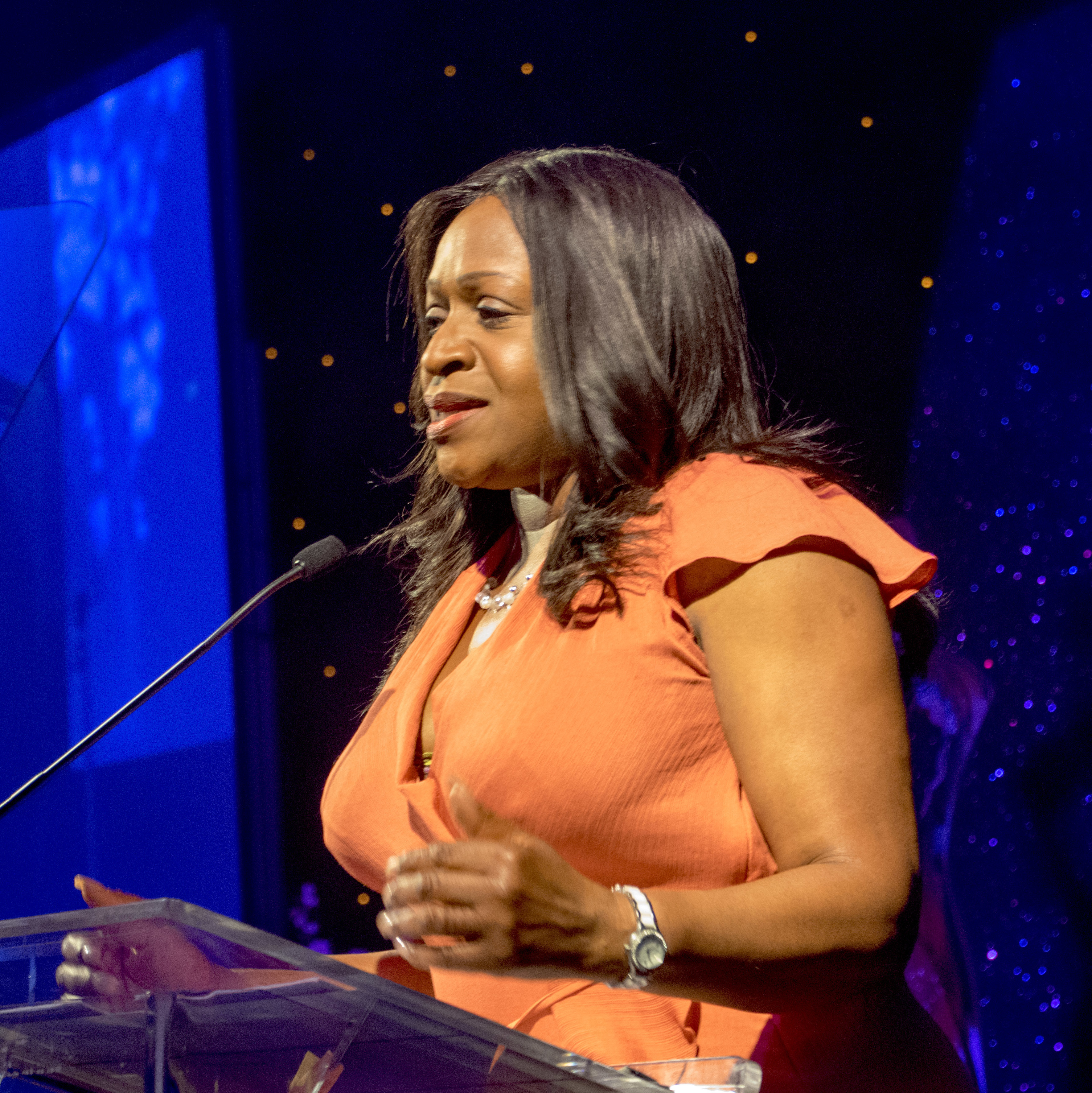 Wintrade Week Women in Trade and Industry Gala Awards & Dinner at Park Plaza Hotel Westminster Bridge London Angie Greaves British radio presenter on London-based radio station Magic 105.4 FM Welcome